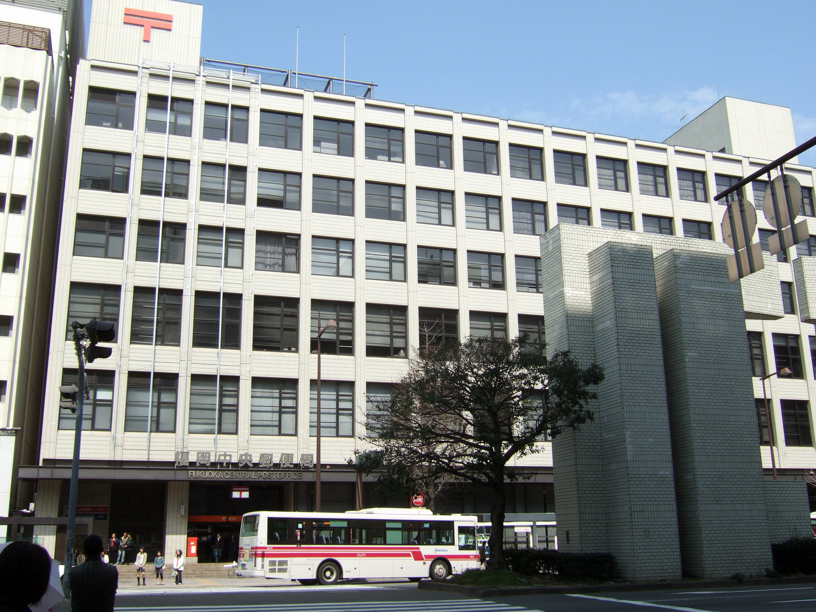 福岡中央郵便局 (Fukuoka Central Post Office)